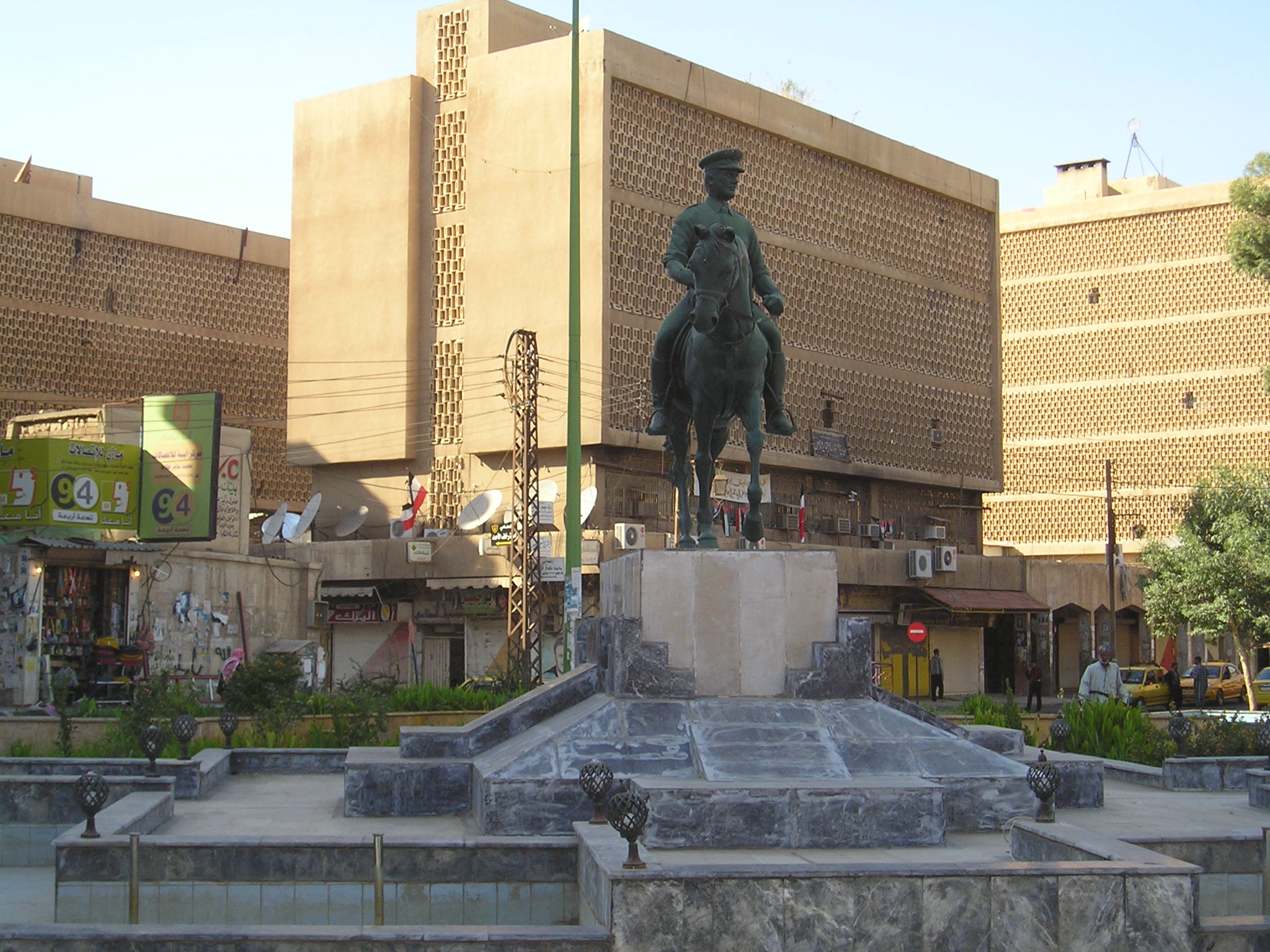 Deir ez-Zor, Syria - March 8 Square (Saahat Azar 8)